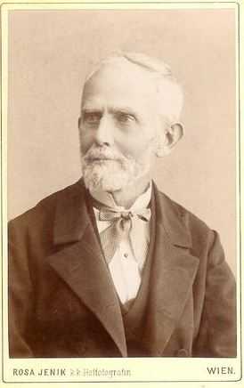 Slovak-German artist, Karl Ludwig Libay (Karol Ľudovít Libai, Libay Károly Lajos)